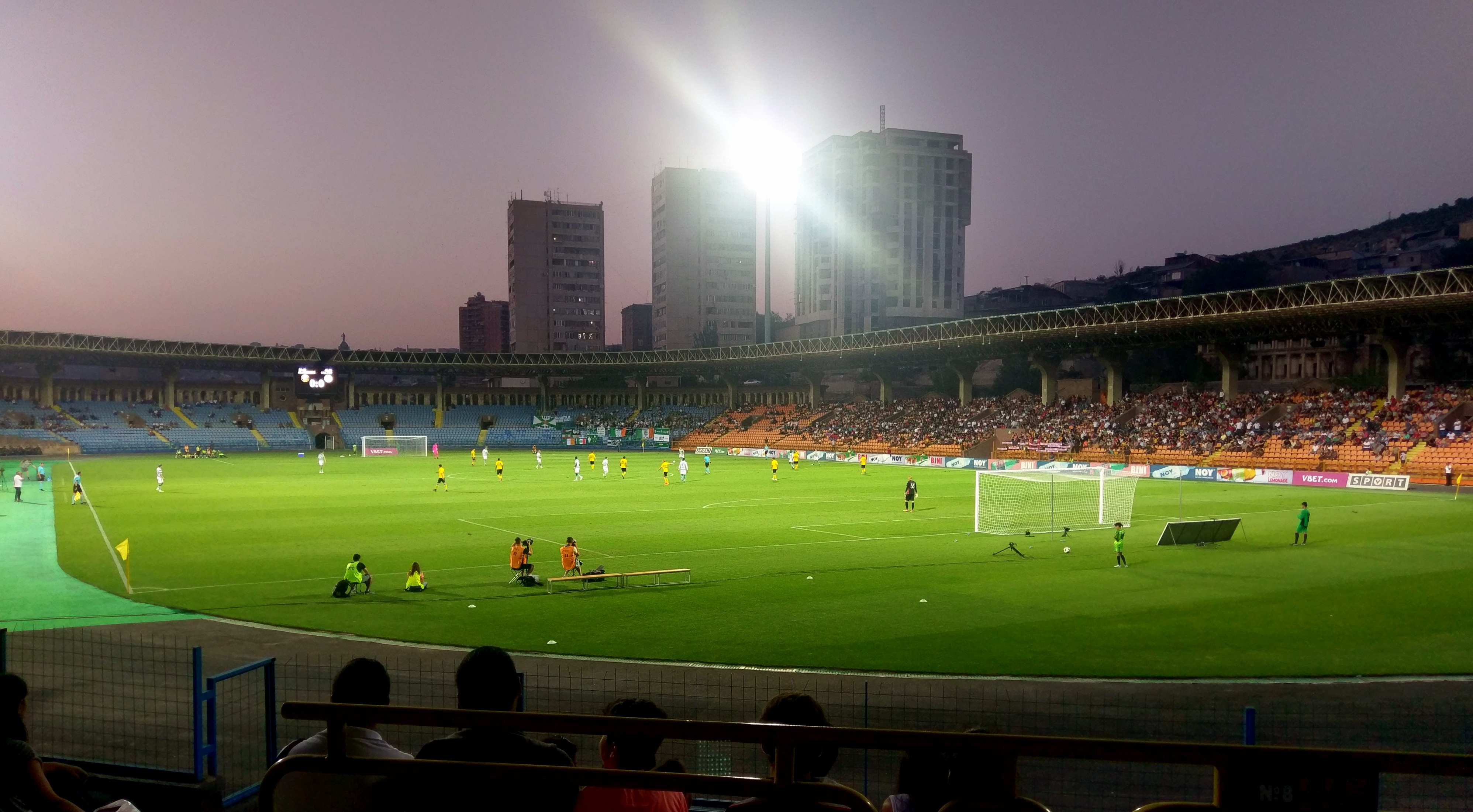 Alashkert vs Celtic, 10 July 2018, 2018–19 UEFA Champions League first qualifying round.